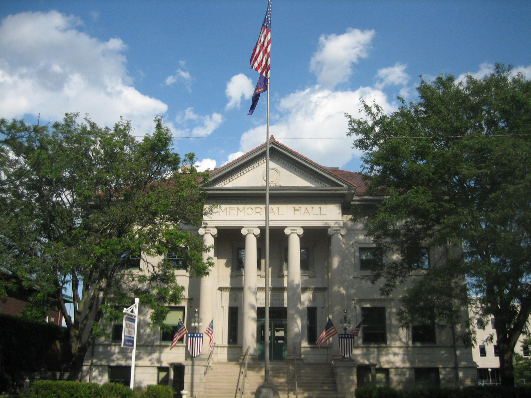 Soldiers and Sailors Memorial Hall (Memorial Hall), Rockford, Illinois, USA. U.S. National Register of Historic Places.